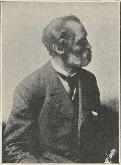 Depicted person: Johann Siegwald Dahl – German painter